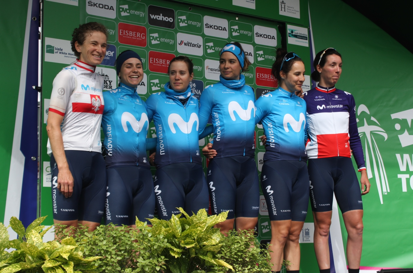 The Movisatr team before the start of the third day of racing in the 2019 Women's Tour. The team is French national champion Aude Biannic, Roxane Fournier, Alicia González, Sheyla Gutiérrez, Polish national champion Malgorzata Jasinska and Lourdes Oyarbide.